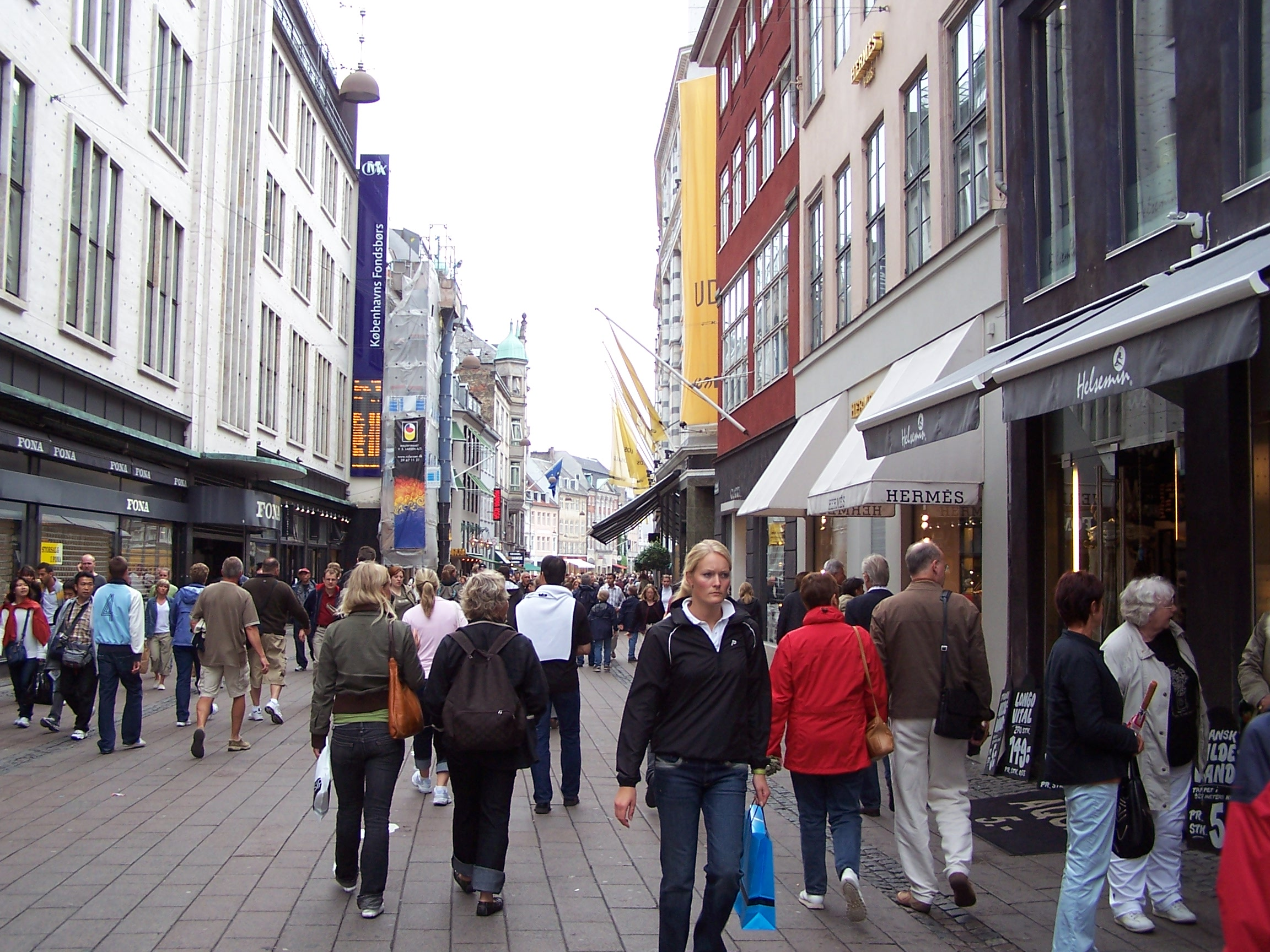 Strøget, Copenhagen.